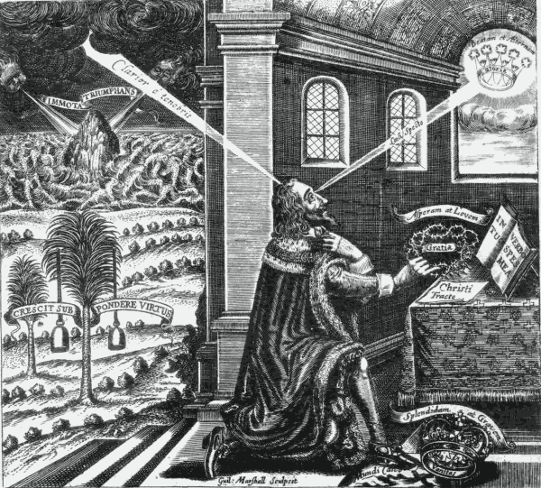 Allegorical frontispiece to Eikon Basilike, depicting King Charles I of England as a Christian martyr